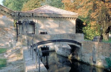 panzano's mill